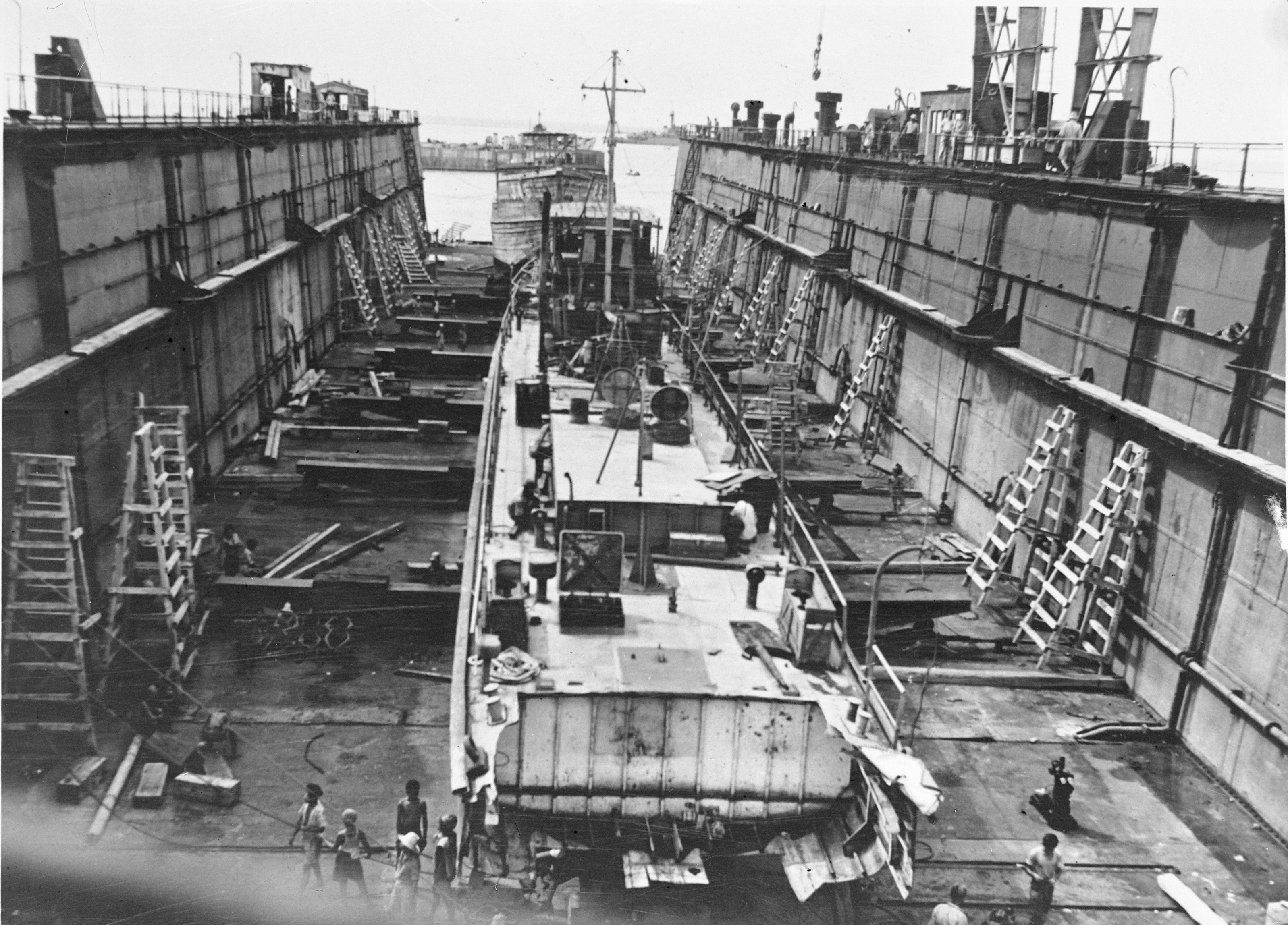 Tanjung Priok Dock of 8000 tons in September 1946. Here it is in Tanjung Priok after it had been recovered in Cilacap It was published in a newspaper on 7 September 1946. It makes the assigned date 5 September doubtful urn=MMCODA01:000160437:mpeg21:p001